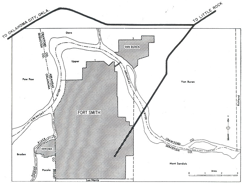 Interstates in today's terms I-40 I-540 south of I-40